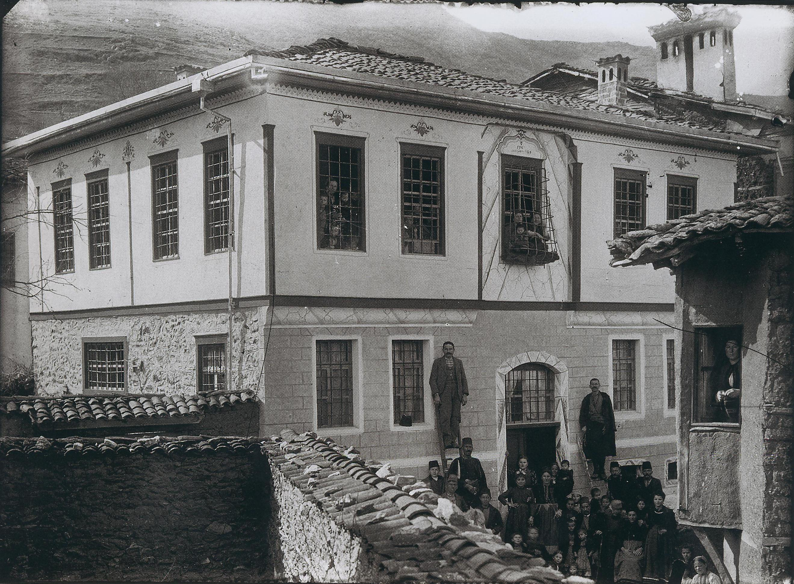 Social event in a newly built house in the village of Gorentsi, today Korisos, Kastoria Prefecture, Greece.